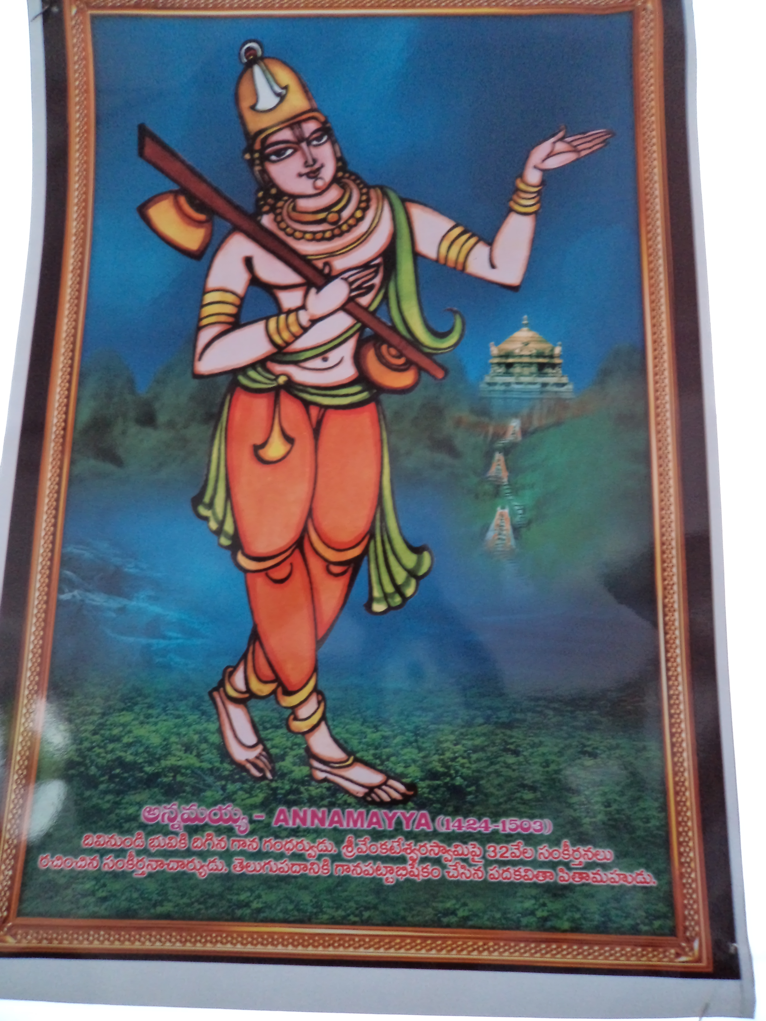 Portrait of Annamayya